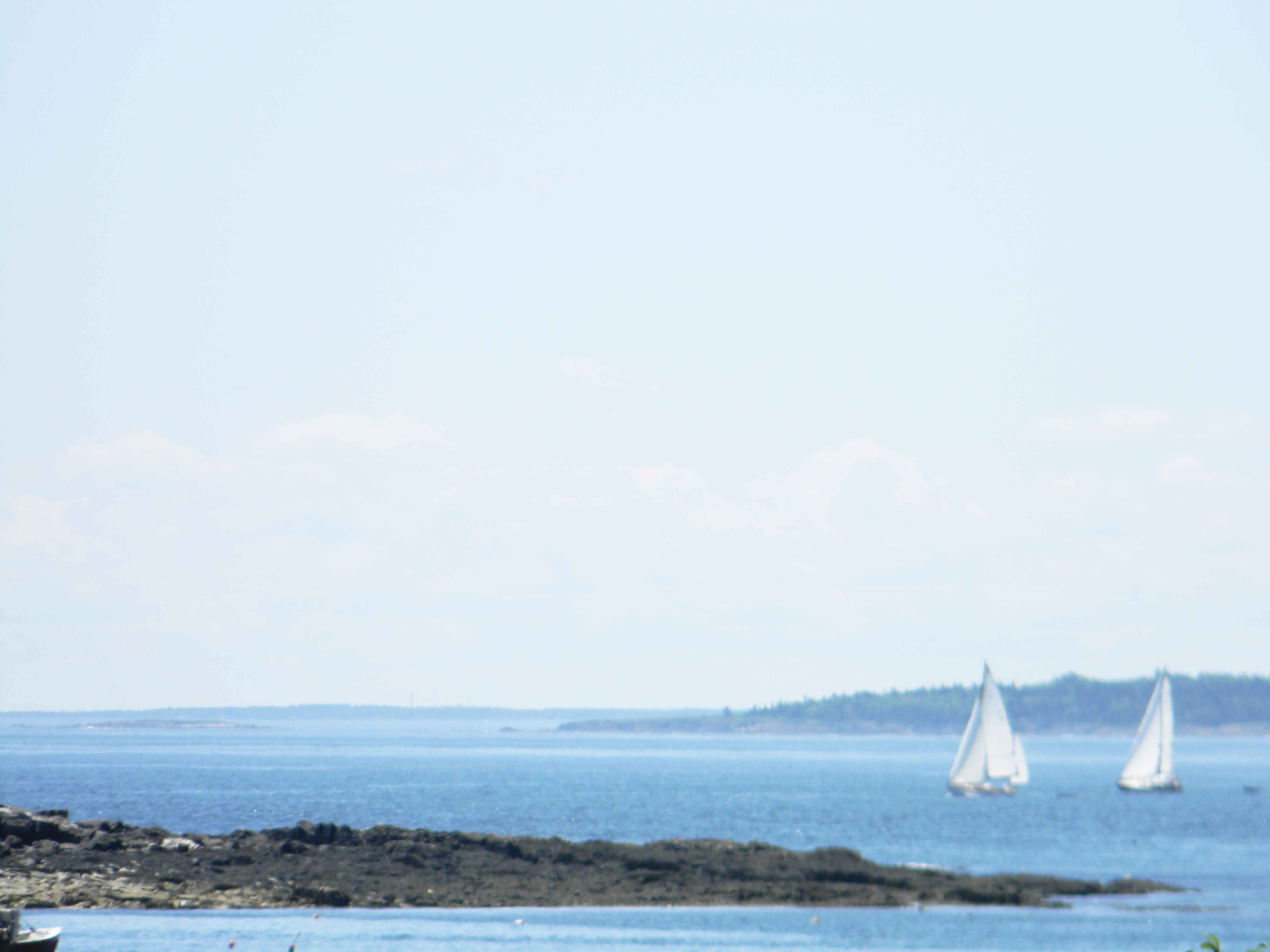 View of Sailboats